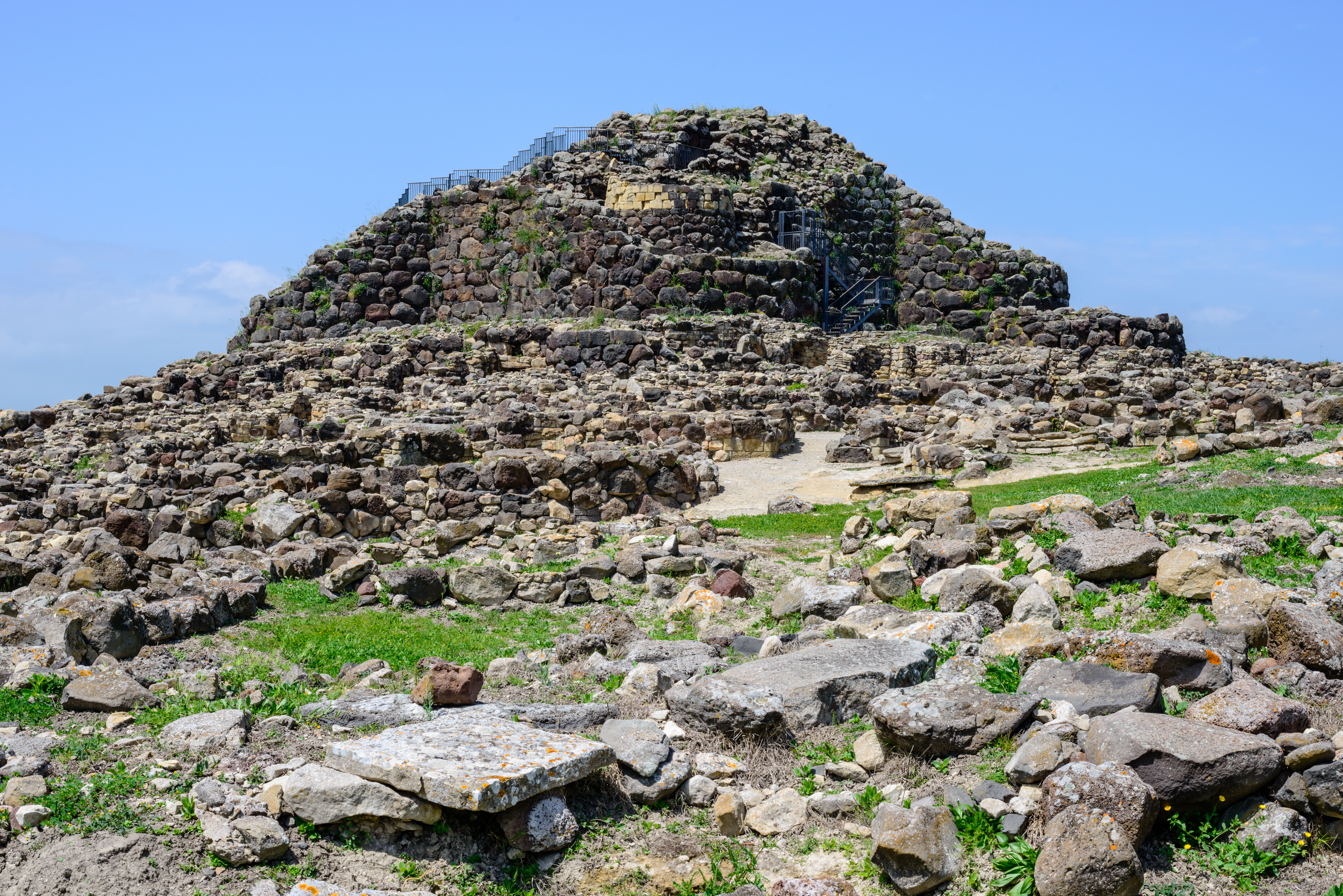 Su Nuraxi is a nuragic archaeological site in Barumini, Sardinia, Italy. The complex is centred around a three-storey tower built around the 16th century BC.